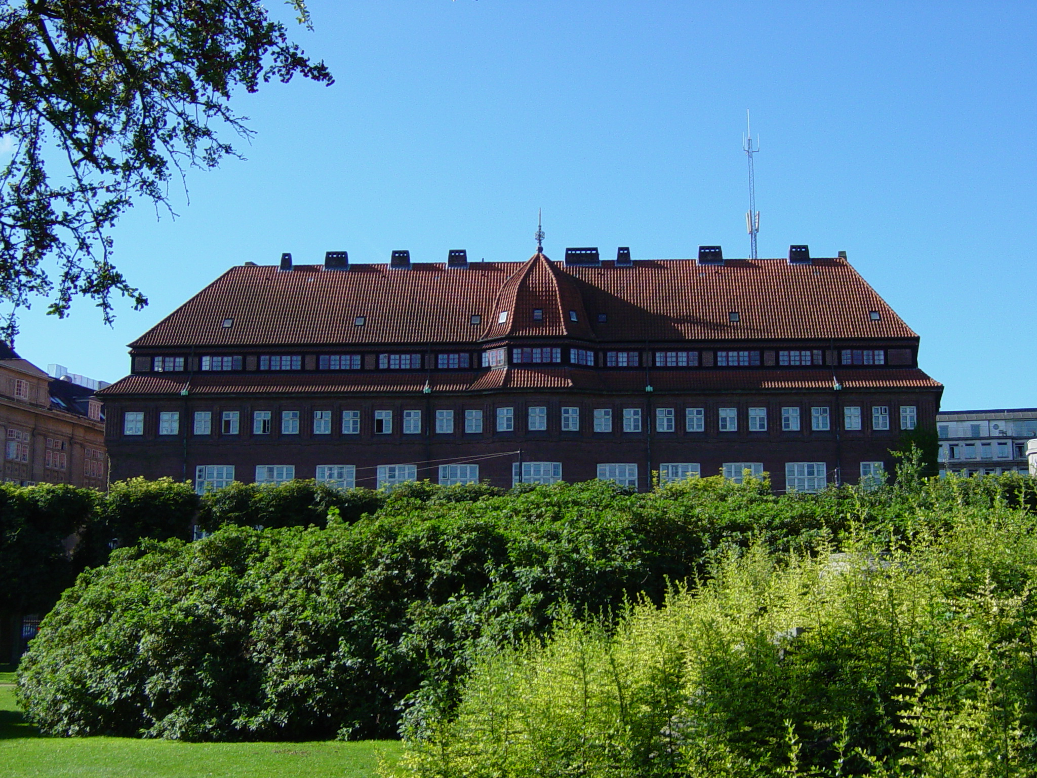 The former headquarters of Københavns Belysningsvæsen on Gothersgade in Copenhagen, Denmark, seen from Rosenborg Castle Gardens